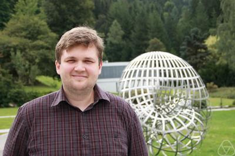 Vlad Vicol, Oberwolfach 2012